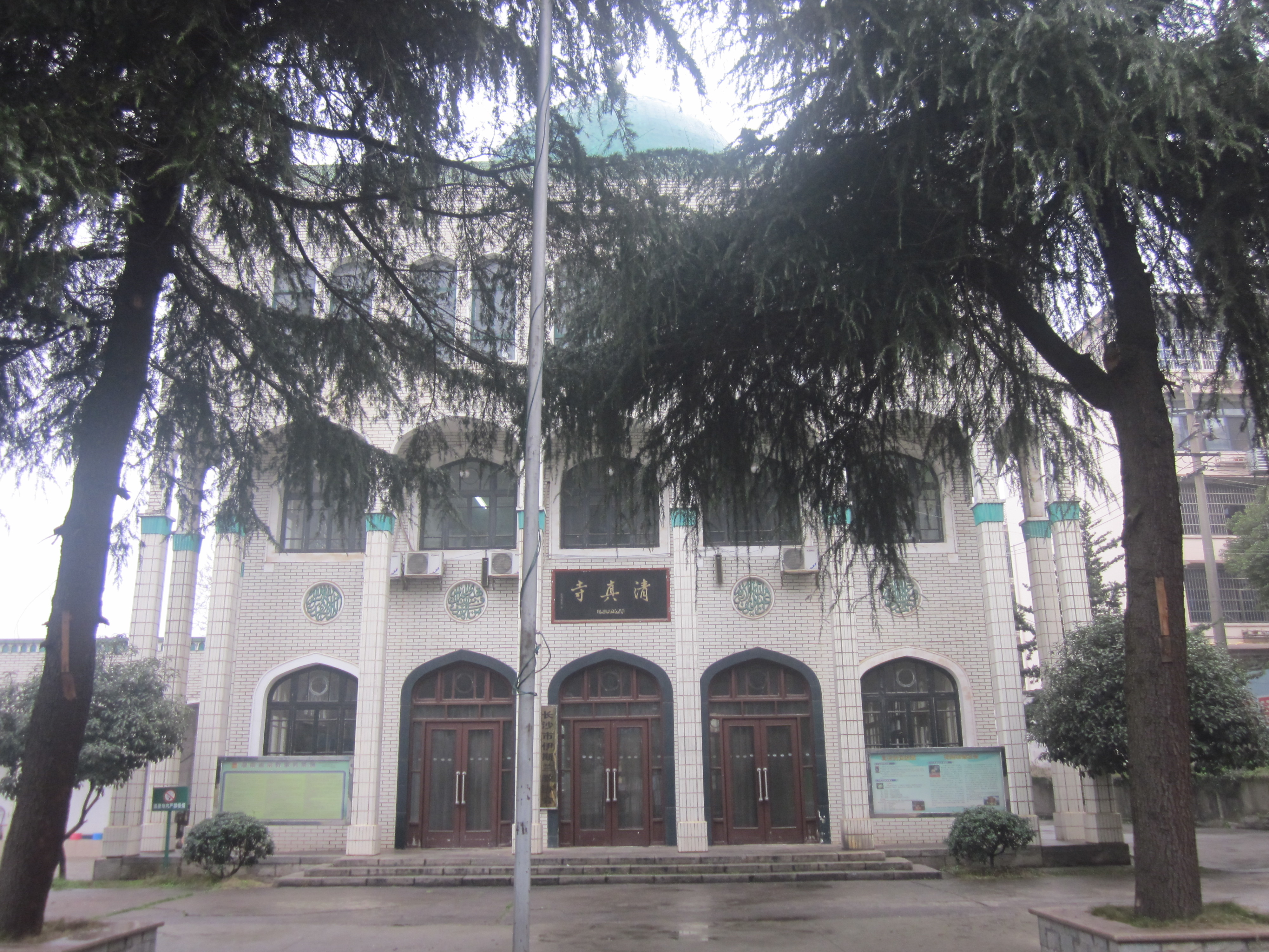 Changsha Mosque is a mosque in Tianxin District of Changsha, Hunan, China.